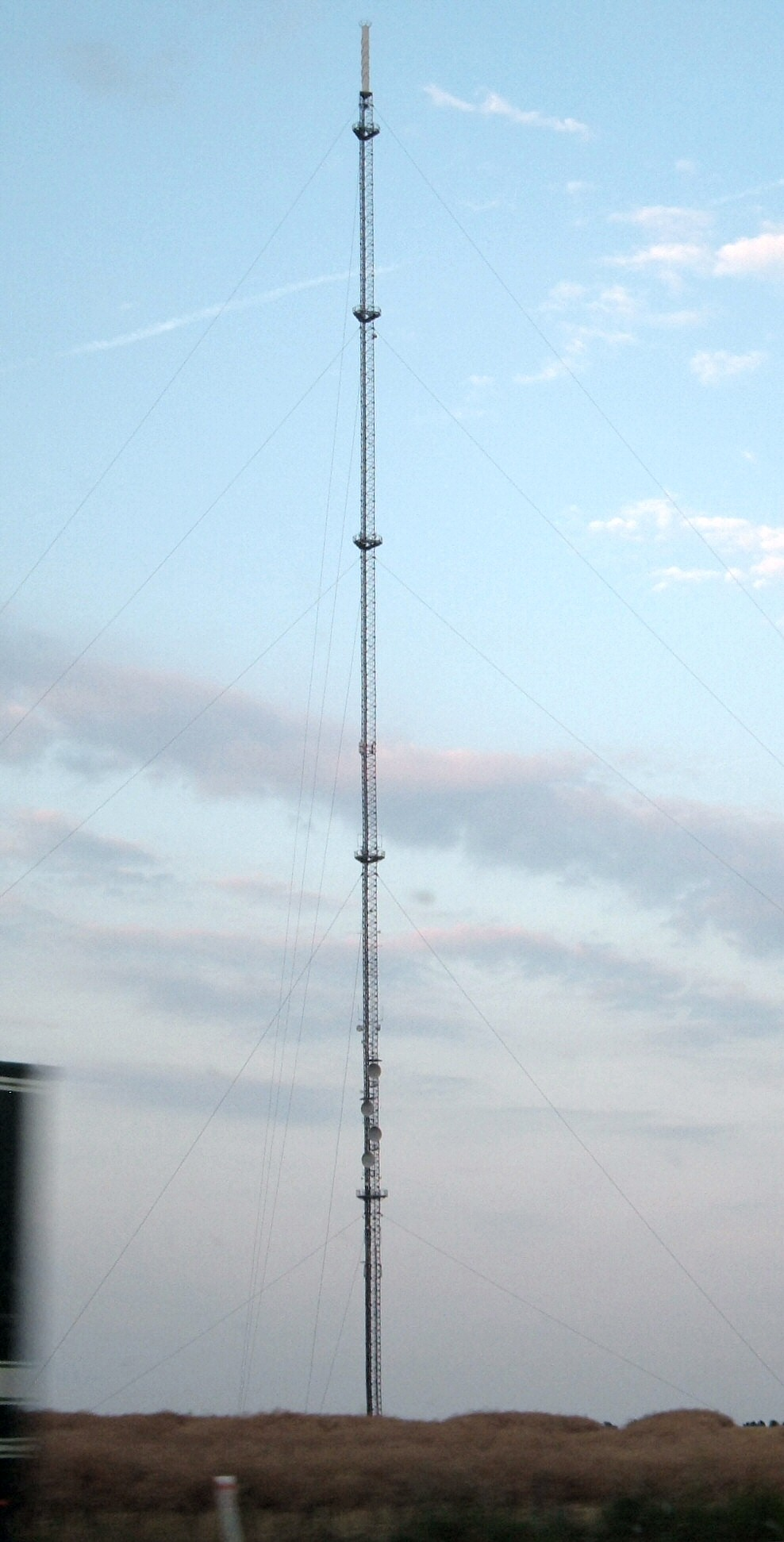 Transmitter mast at Vordingborg, South Zealand, Denmark